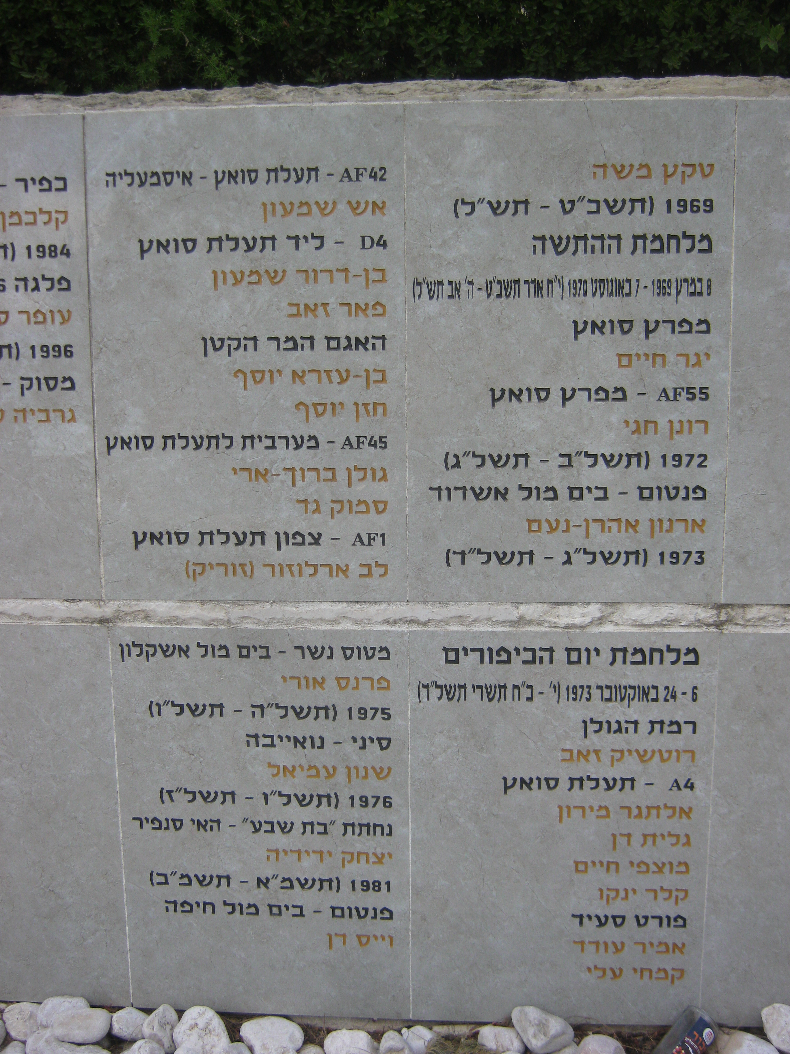 Wall of Remembrance at the Garden of the Missing in Action, June 2020